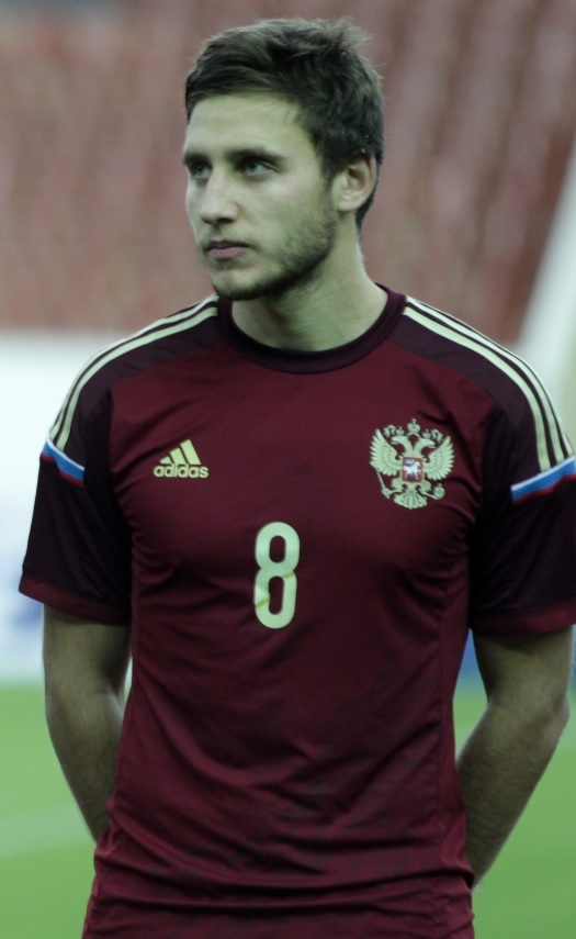 Mikhail Zhabkin playing for Russia U-21 against Estonia-21 on 21 January 2016.